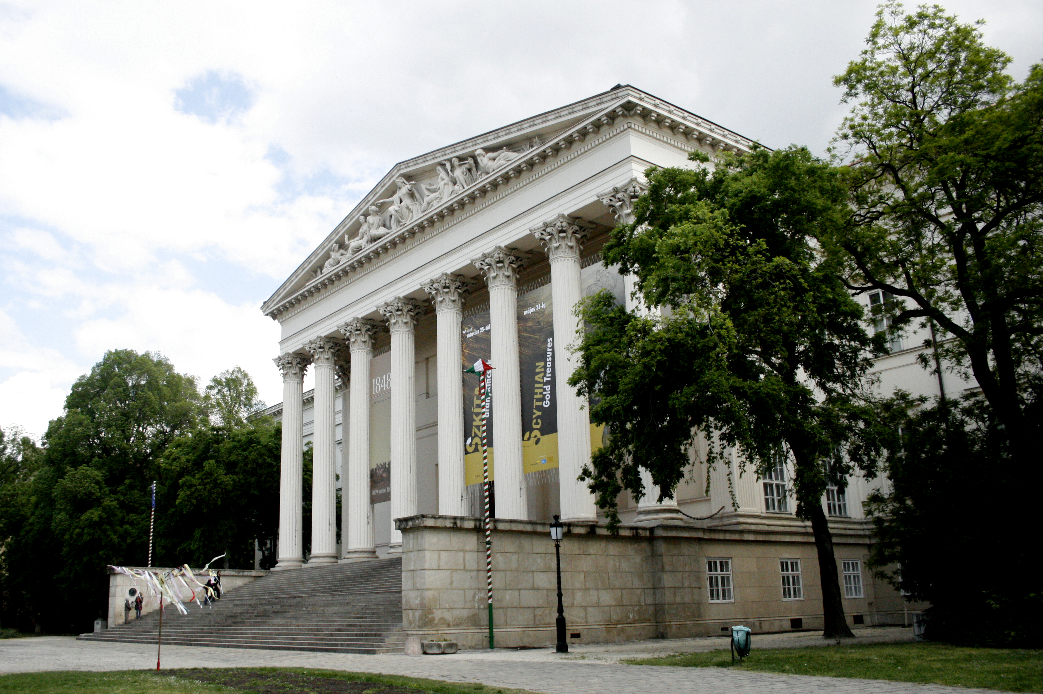 Where we were racially profiled about 20 times